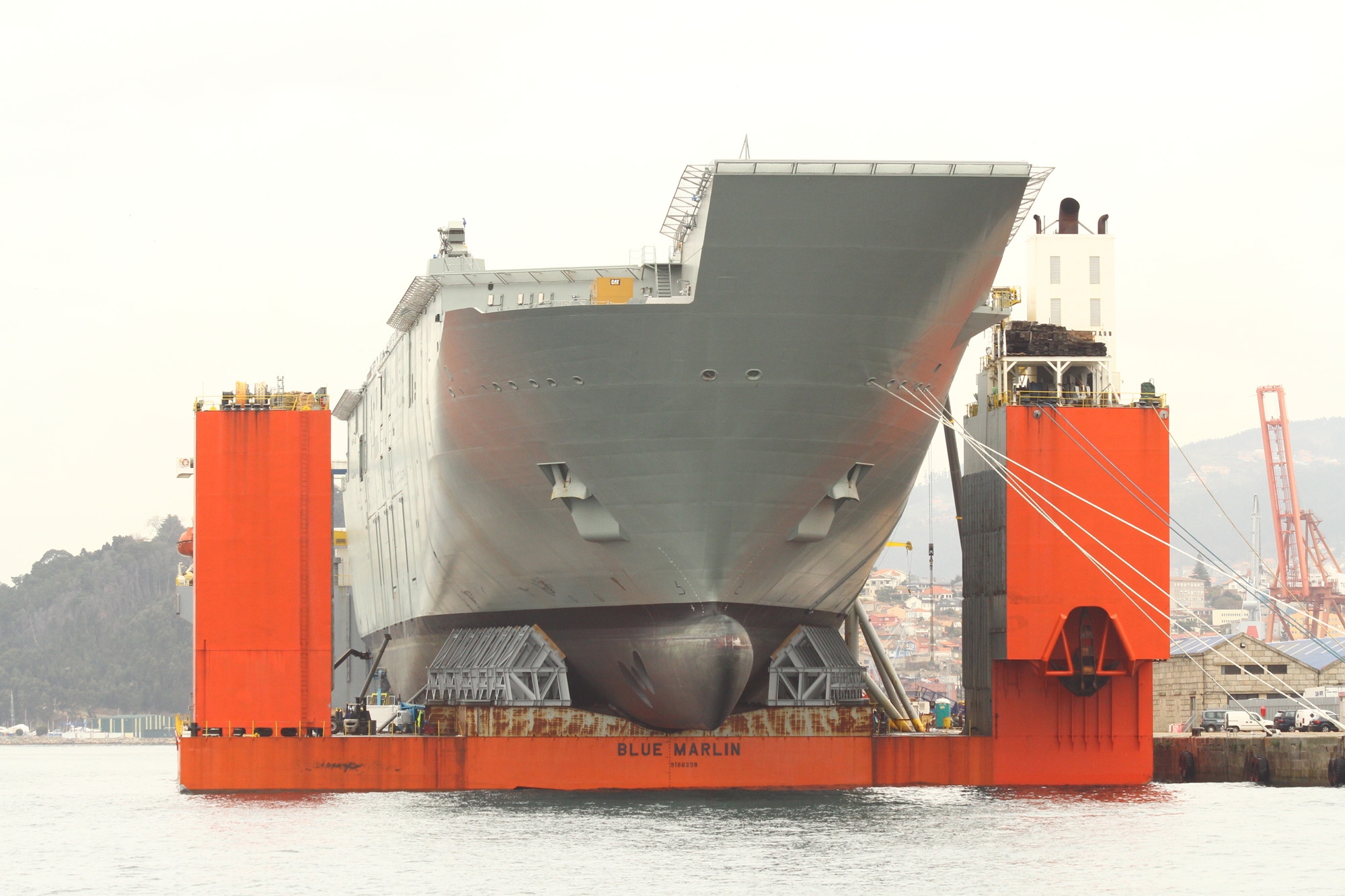 Trabajos para soldar el portaaviones HMAS Adelaide de la Real Armada Australiana sobre el buque-plataforma Blue Marlin, para trasladarlo a Australia y terminar su construcción. El Blue Marlin y su valiosa carga estarán amarrados en el muelle de transatlánticos de la Estación Marítima de Vigo hasta el 20 de diciembre, día en que zarparán hacia Australia. Vigo: Welding the aircraft carrier HMAS Adelaide of the Royal Australian Navy on the ship-platform Blue Marlin Work to weld the aircraft carrier HMAS Adelaide on ship-platform Blue Marlin, to move it to Australia and finish its construction. The Blue Marlin and its precious cargo will be moored at the pier liners of the Maritime Station of Vigo until 20 December, the day they set sail to Australia.